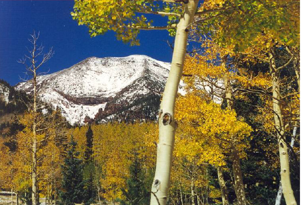 Humphreys Peak, located within the Kachina Peaks Wilderness Area in Arizona's Coconino National Forest.